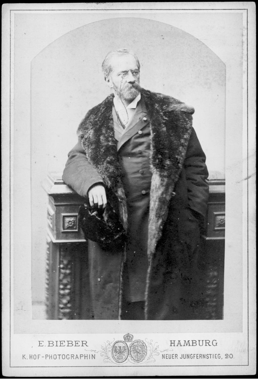 Theodor Leschetitzky (1830–1915), Polish-Austrian pianist, composer and music educator.